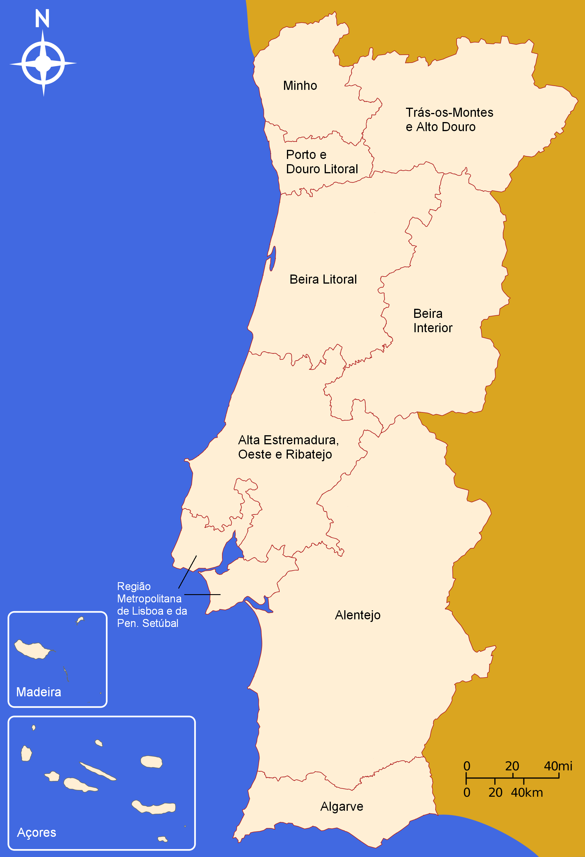 Proposal of 9 regions, suggested by the Portuguese Communist Party, in 1997, for the regionalization of mainland Portugal.